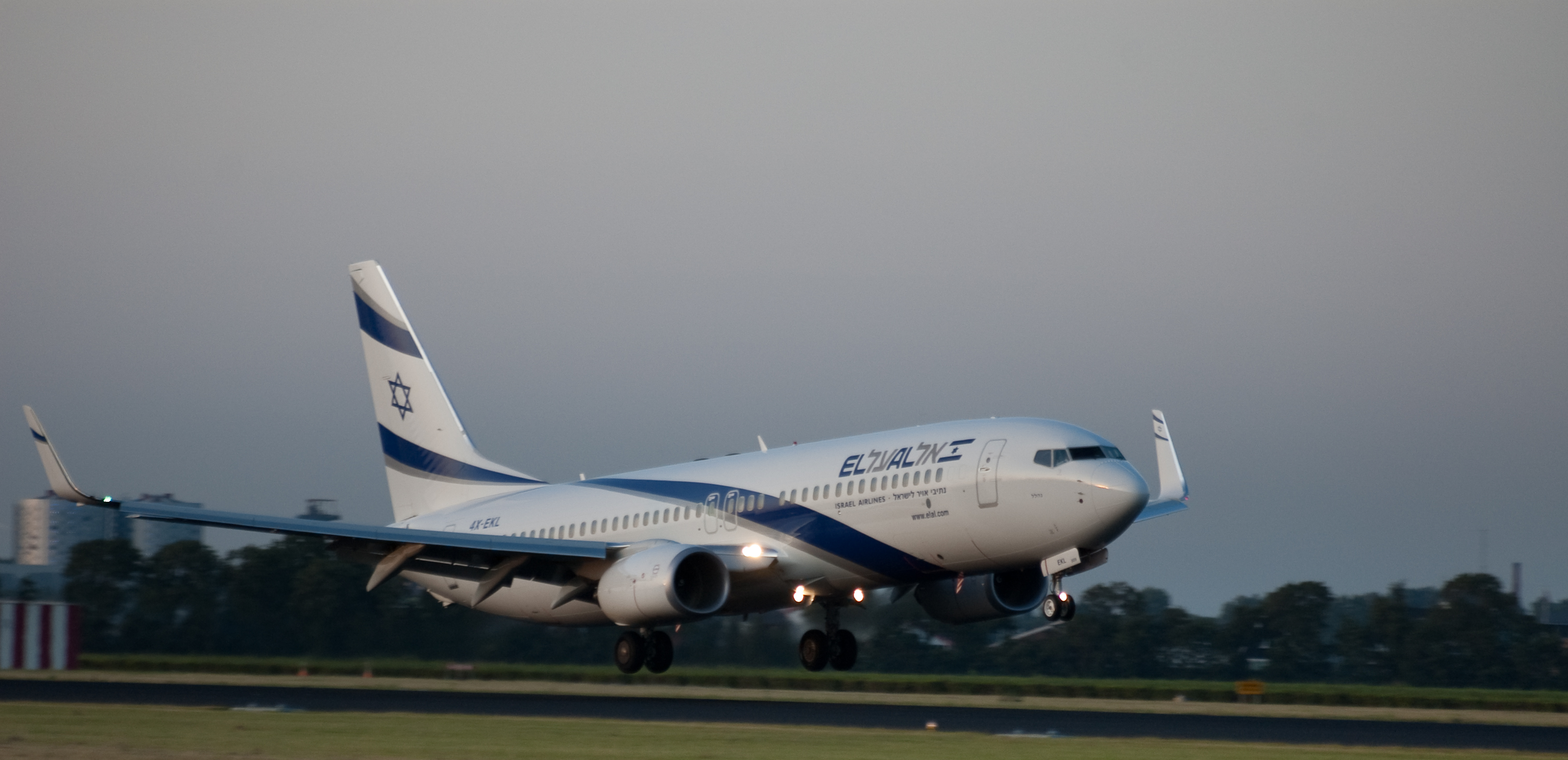 El Al Boeing 737 at Schiphol.